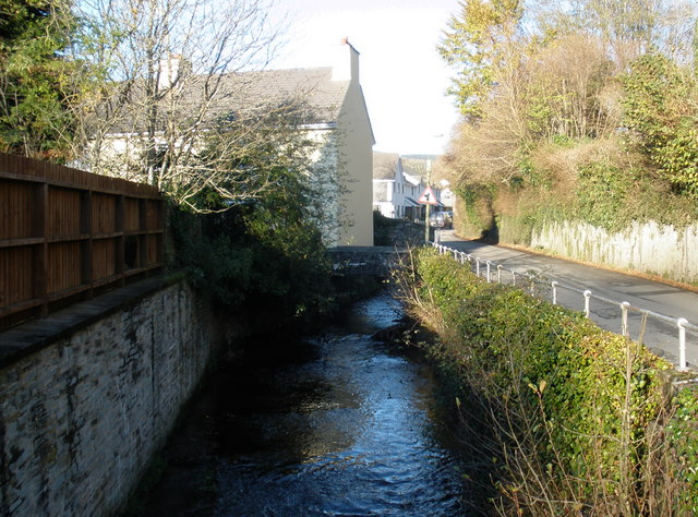 River Ashburn, Ashburton